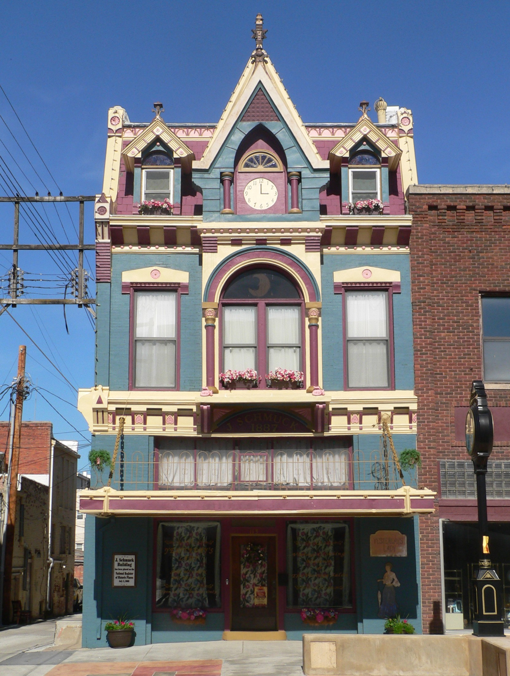 J. Schmuck building, located at 113 N. 5th Sreet in Beatrice, Nebraska; seen from the east, across 5th.